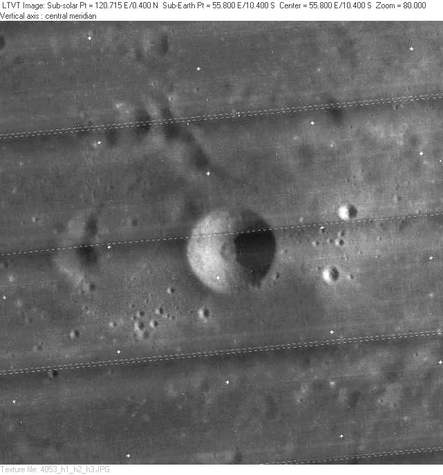 Crater Al-Marrakushi